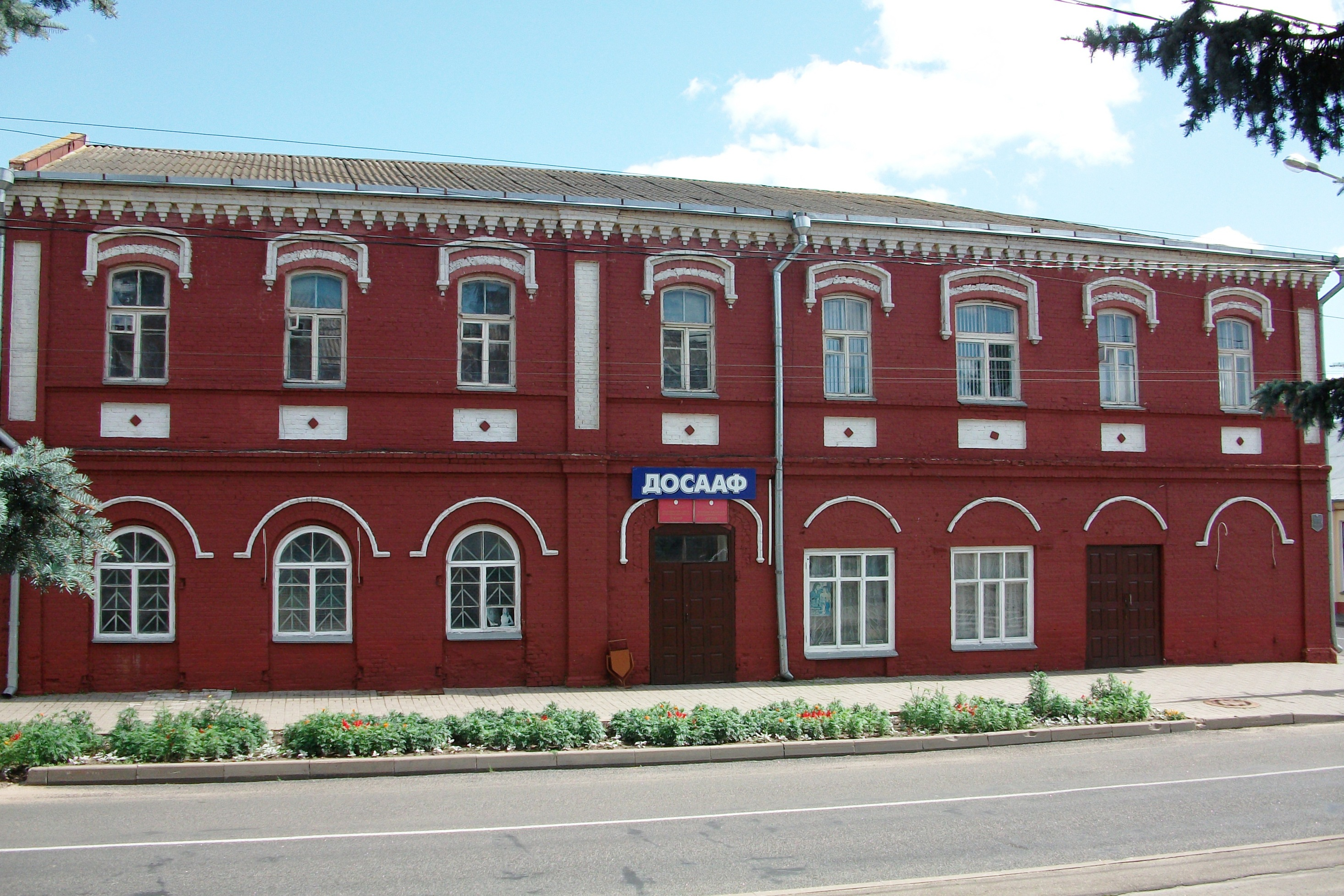 Building in Verkhnyadzvinsk, Belarus (early XXth century)